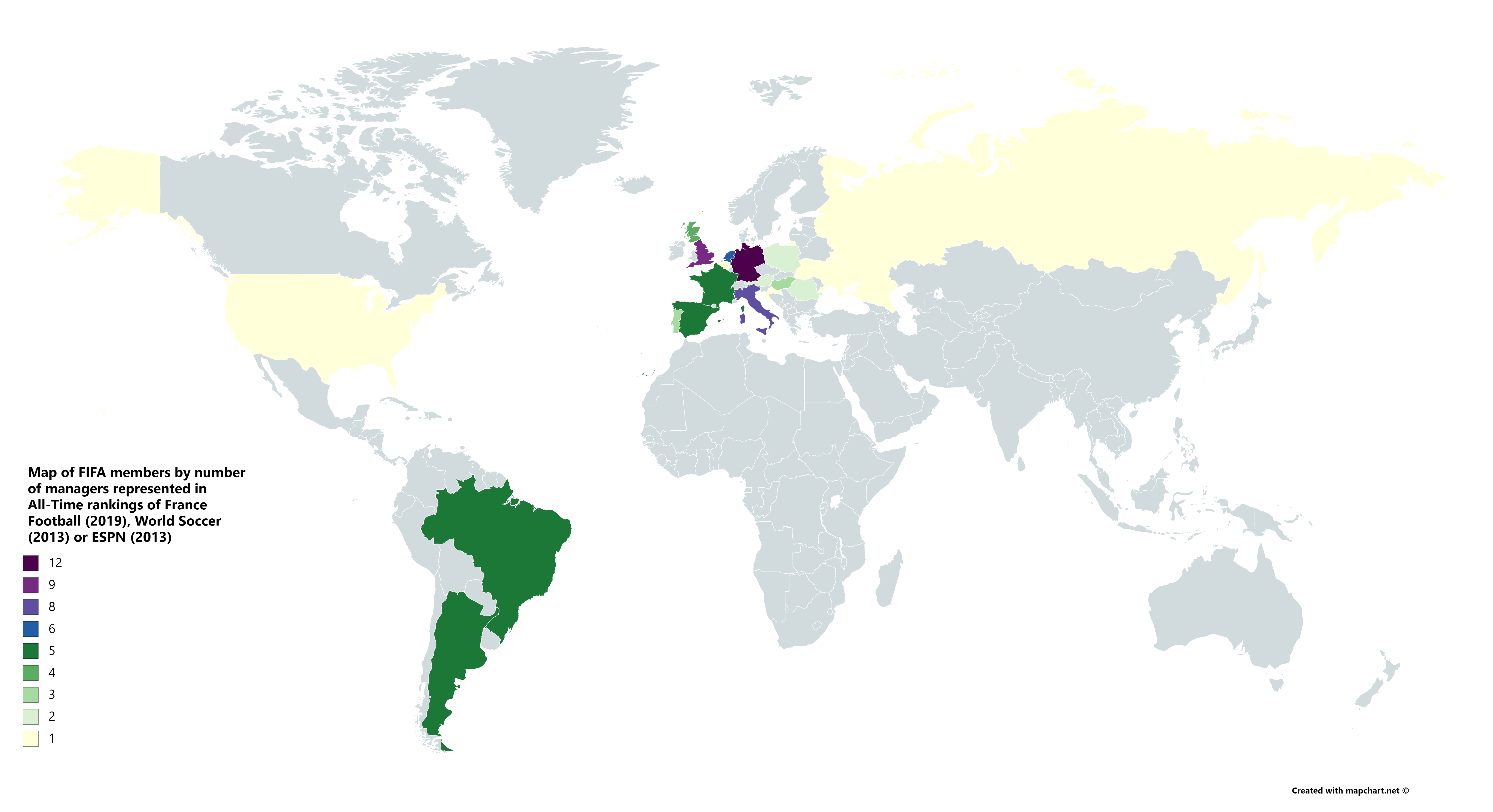 Map of FIFA members by number of managers ranked by at least one of these publications - France Football (published in 2019), World Soccer (published in 2013) or ESPN (published in 2013)